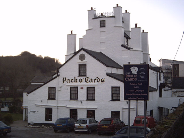 Pack o' Cards. This famous pub has four floors and 52 windows.